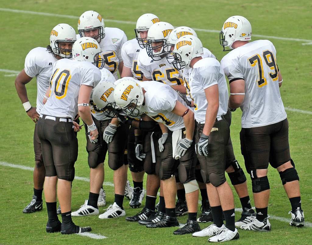 Valparaiso University football players in a huddle during a game against the University of San Diego.